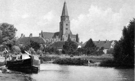 Cathedral of Brandenburg by the Havel, Germany. Picture taken in 19. century.